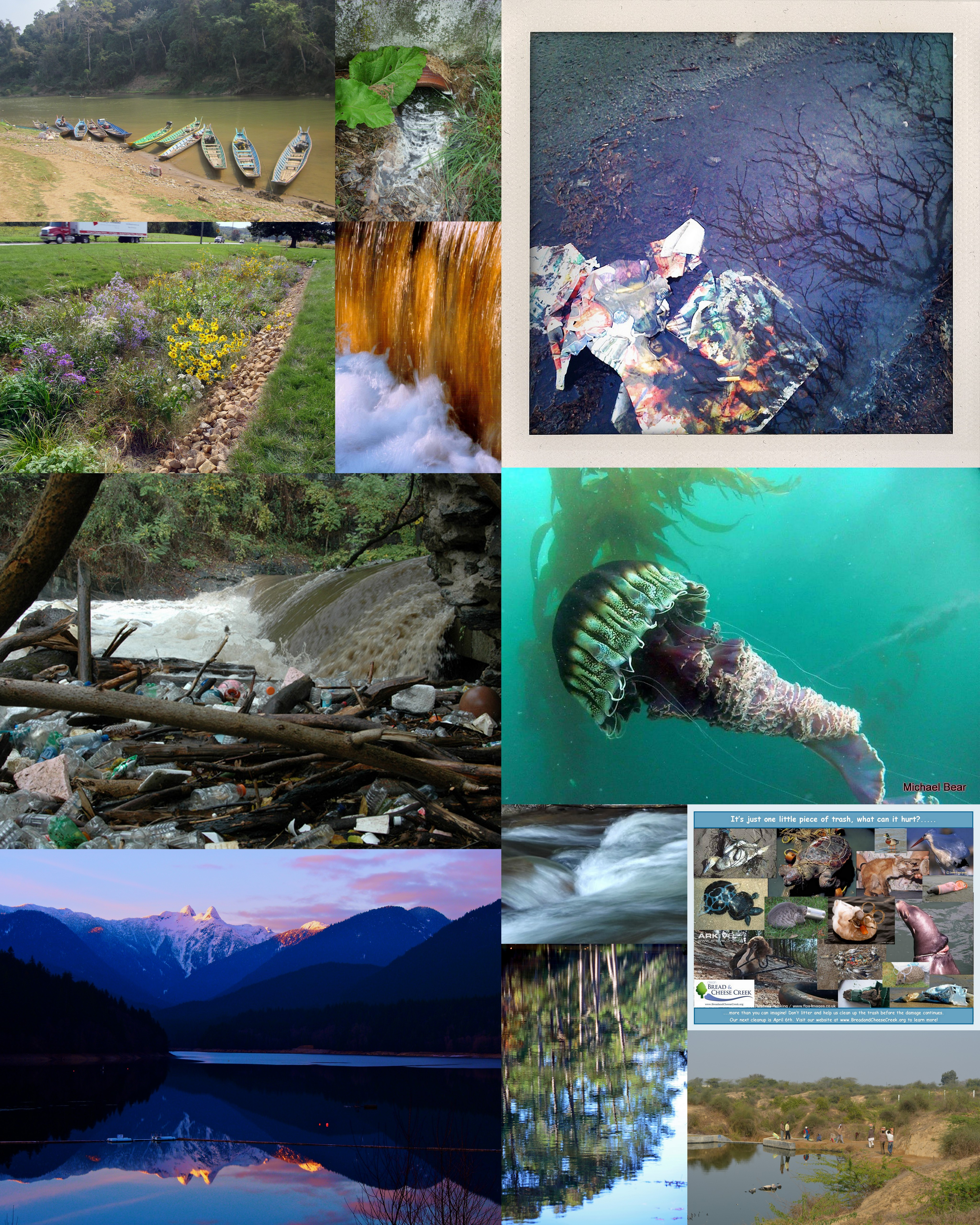 World Water Day is an International Event held annually on 22 March, where officials and citizens around the world join together to advocate for more sustainable management of this precious resource. The 2013 theme is cooperation. We are all connected to water, we are all connected to each other through this life-supporting resource. To celebrate and inspire others around this day, we're asking you to share photos of water near you and actions you might be taking to protect it at EPA water updates and news In 2013, in reflection of the International Year of Water Cooperation, World Water Day is also dedicated to the theme of cooperation around water and is coordinated by UNESCO in collaboration with UNECE and UNDESA on behalf of UN-Water. An international day to celebrate freshwater was recommended at the 1992 United Nations Conference on Environment and Development (UNCED). The United Nations General Assembly responded by designating 22 March 1993 as the first World Water Day. These photos above have been provided to EPA's State of the Environment global photography documentary. Photo Credits: 'Boats on the Mekong, Laos' by SoBoME, March 1, 2013 'The problem with stormwwater' by JEBlankenship May 29, 2012 'Trash Puddles Oslo, 2011' by Michelle Lanning, April 28, 2011 'Redfining Industrial Stormwater' by JEBlankenship, September 21, 2012 'Golden Water' by donsfotostop Michigan, May 11, 2011 'Plastic, plastic, everywhere--and dirty water to drink...' by bltlewis January 13, 2012" 'black sea nettle (Chrysaora achlyos)' by scubapro25, March 14, 2013 'Downstream' by photocafe, British Columbia, January 13, 2013 'Water in Motion' by Rustgibson, August 6, 2012 'One small piece of litter can make a difference' by Clean Bread and Cheese Creek, March 13, 2013 'Trees are reflected in a Hilton Head Island lagoon on a December morning.' by John Dreyer, December 28, 2011 'Building Wetlands' Yamuna River, India by getscooter